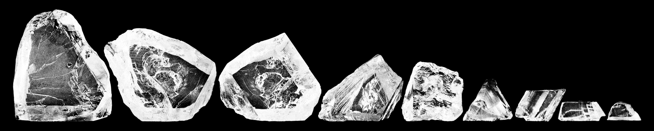 The nine major uncut stones split from the rough Cullinan diamond in order of size (largest to smallest).